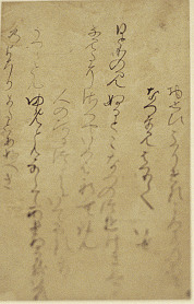 Koshigire: A Cutting of REIKA_SYU in the Album of UMENOTUYU, Tokyo National Museum, Tokyo